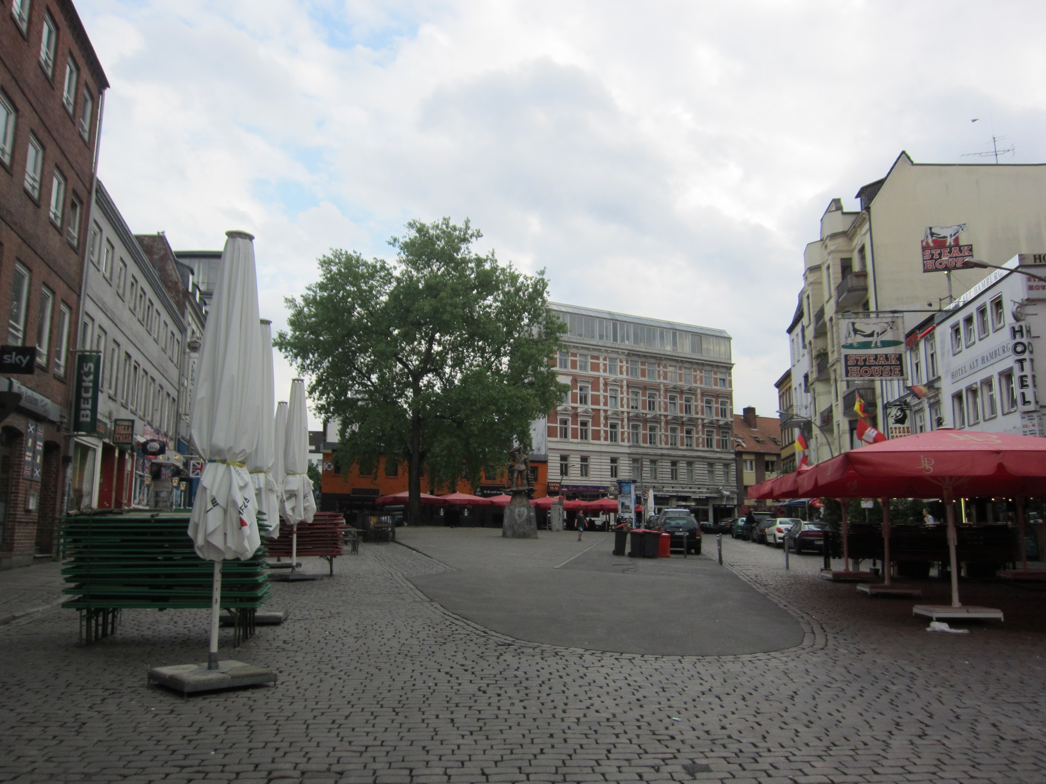 Square "Hans-Albers-Platz" in Hamburg-St. Pauli